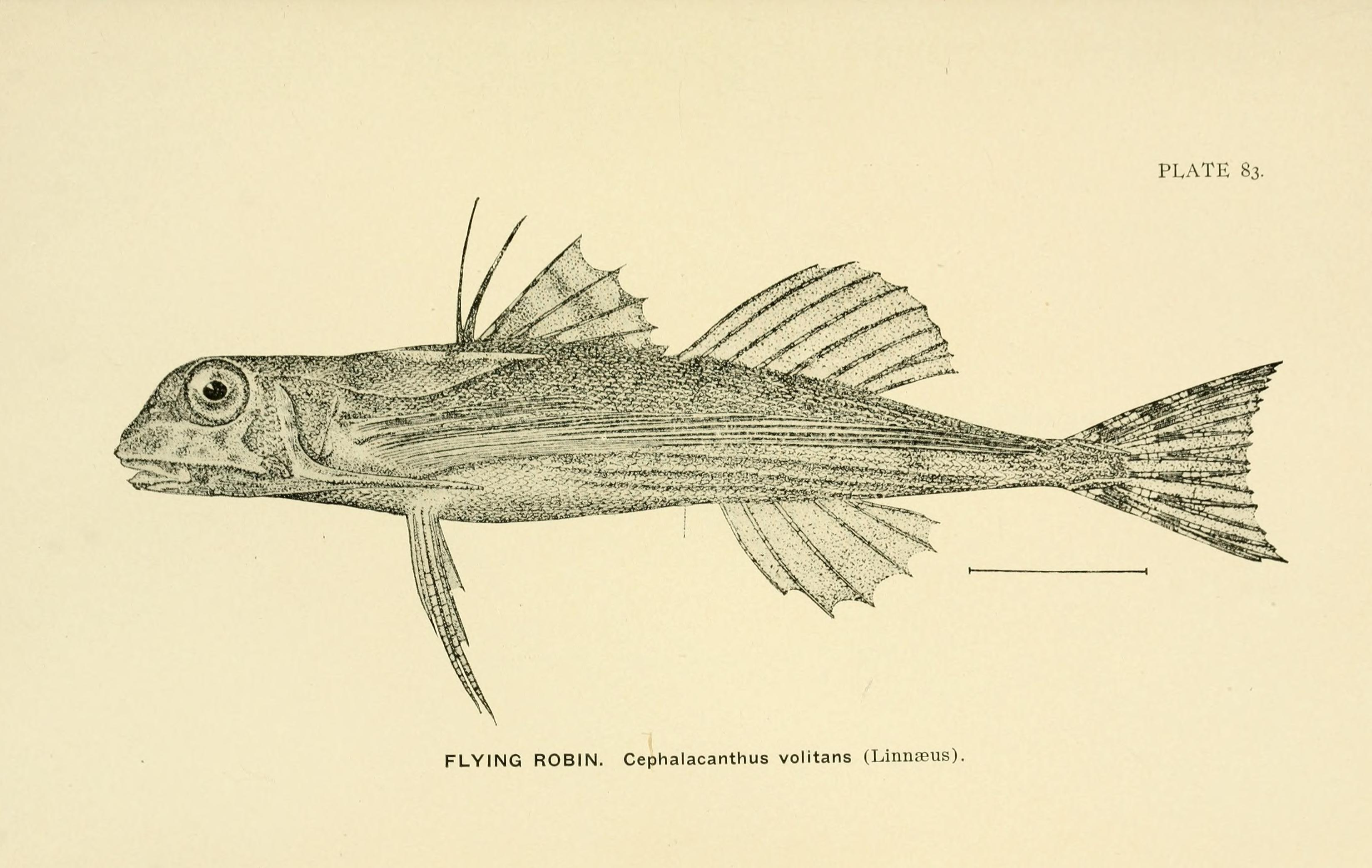 Flying Robin (Cephalacanthus volitans syn. Dactylopterus volitans) Title: Annual report of the New Jersey State Museum Identifier: annualreportofne1905newj Year: 1905 (1900s) Authors: New Jersey State Museum Subjects: New Jersey State Museum; Natural history Publisher: Trenton, N. J. : MacCrellish & Quigley Text Appearing Before Image: Oh Text Appearing After Image: O